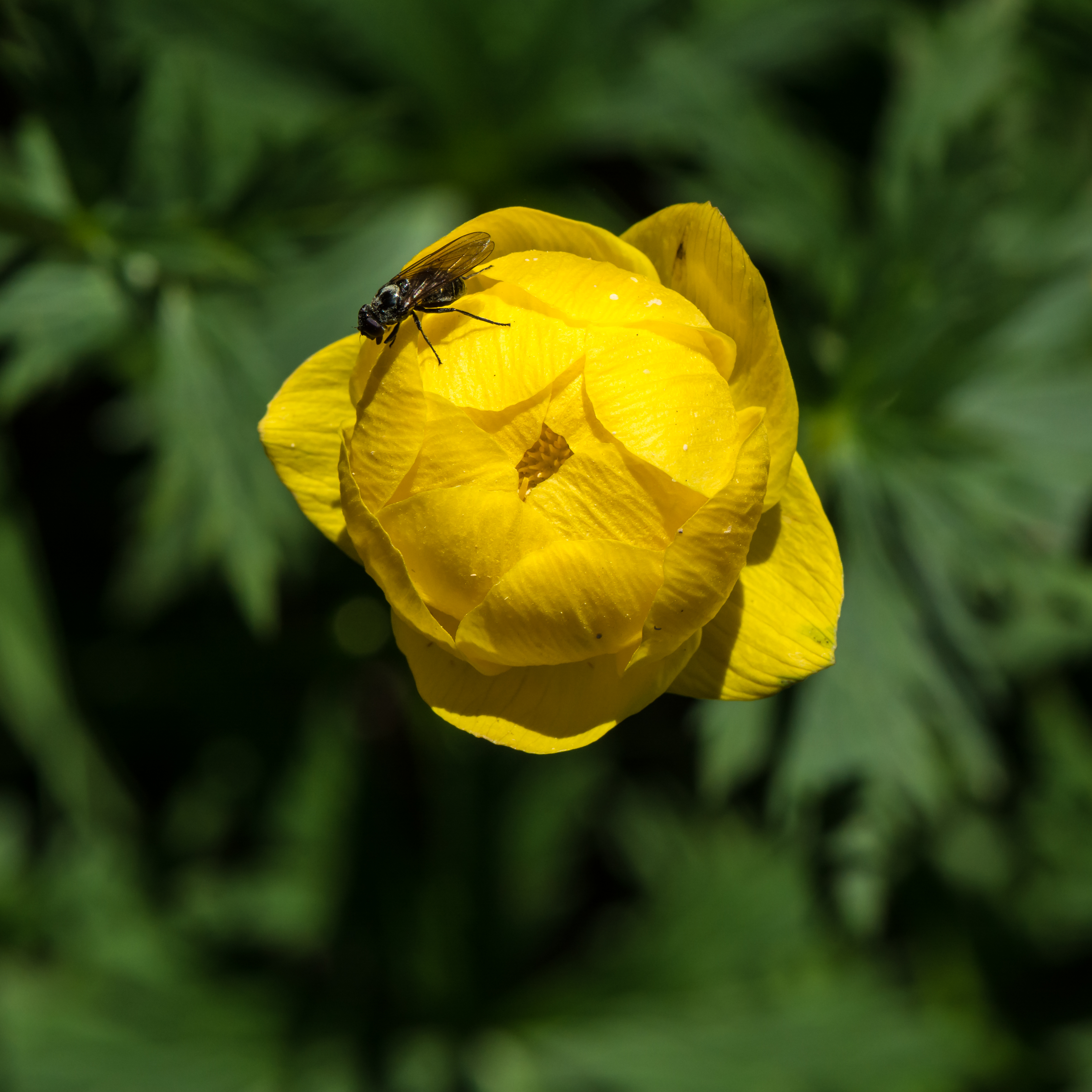 Globeflower (Trollius europaeus) with Brachycera near lake Spechtensee, Styria